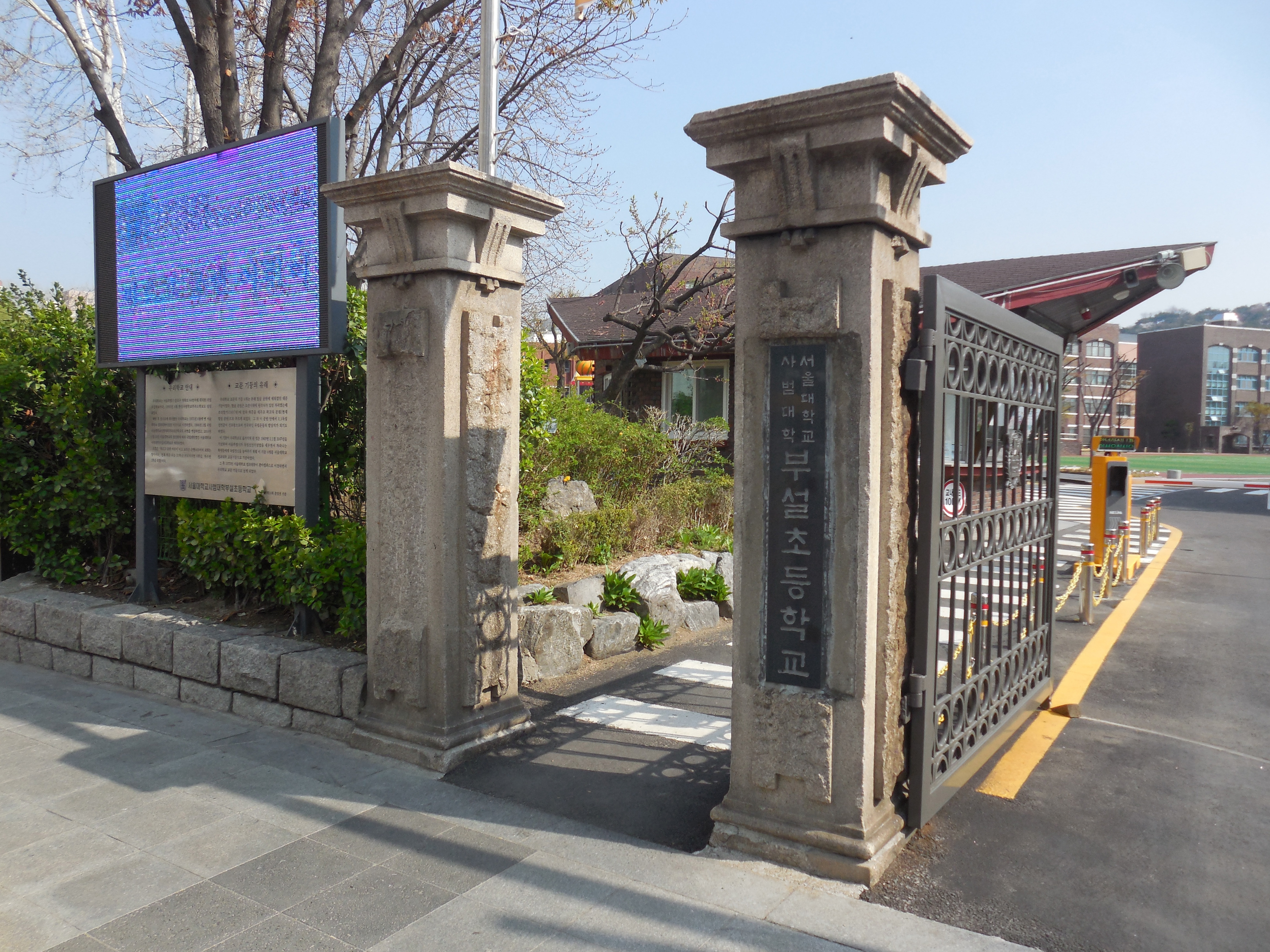 Original Main Gate of Tapgol Park.